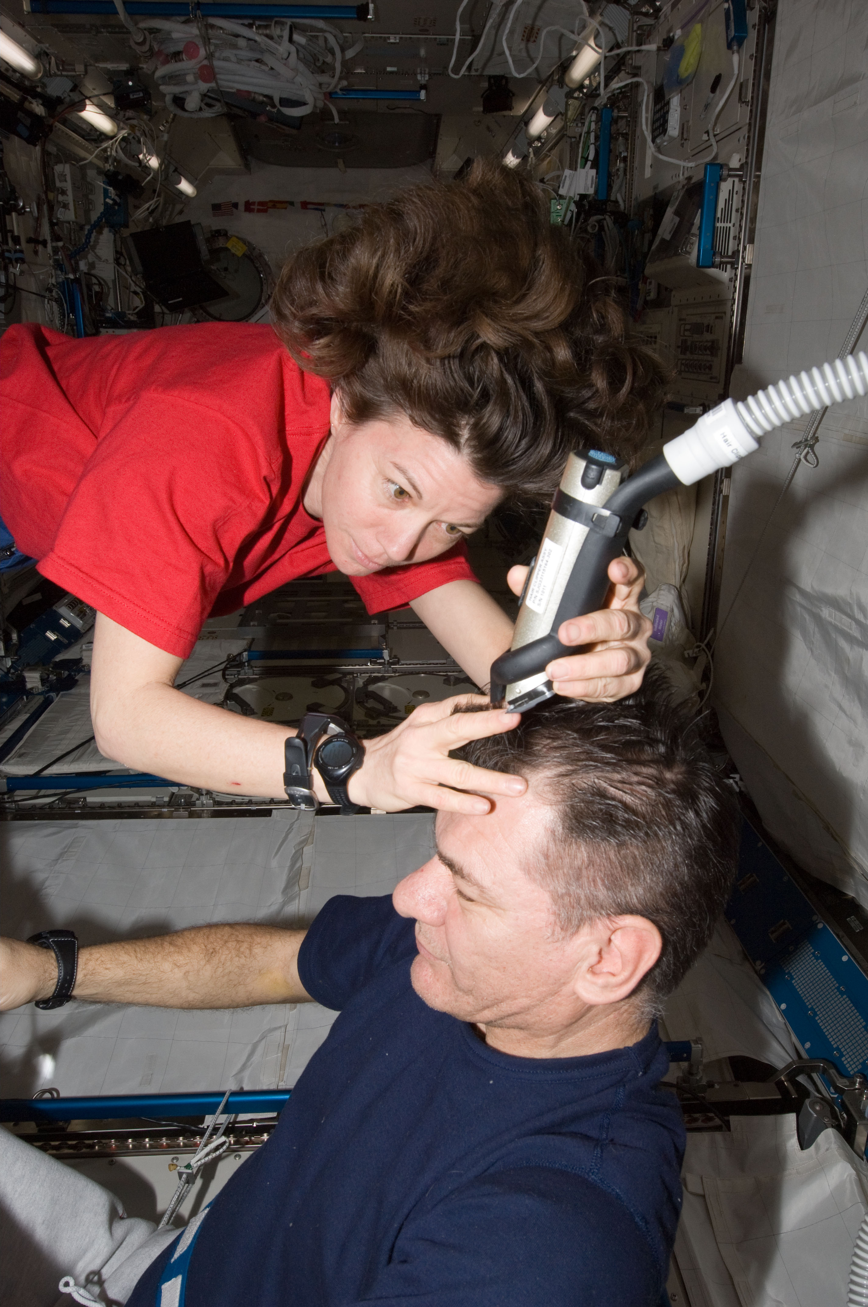 Haircut in ISS ISS026-E-017741 NASA astronaut Catherine (Cady) Coleman assists European Space Agency astronaut Paolo Nespoli with a haircut in the Kibo laboratory on the International Space Station. The two Expedition 26 flight engineers used a vacuum cleaner (partially out of frame) to remove free-floating hair particles from the air.